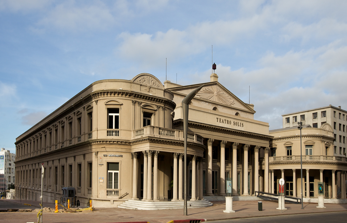 Solis Theatre in Montevideo, Uruguay. Built in 1856.